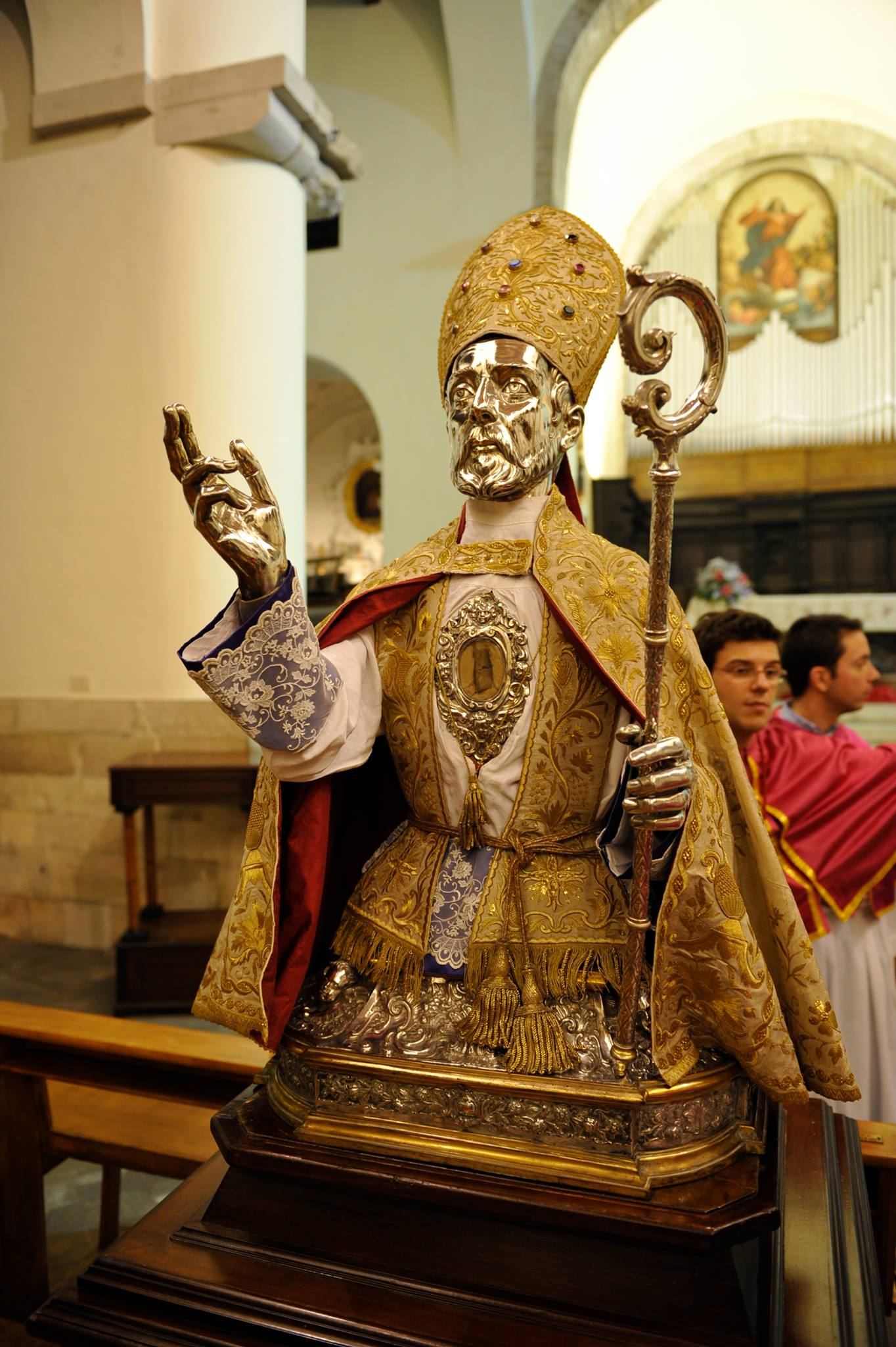 Siver reliquary of st. Mark of Aeca kept in the Bovino cathedral